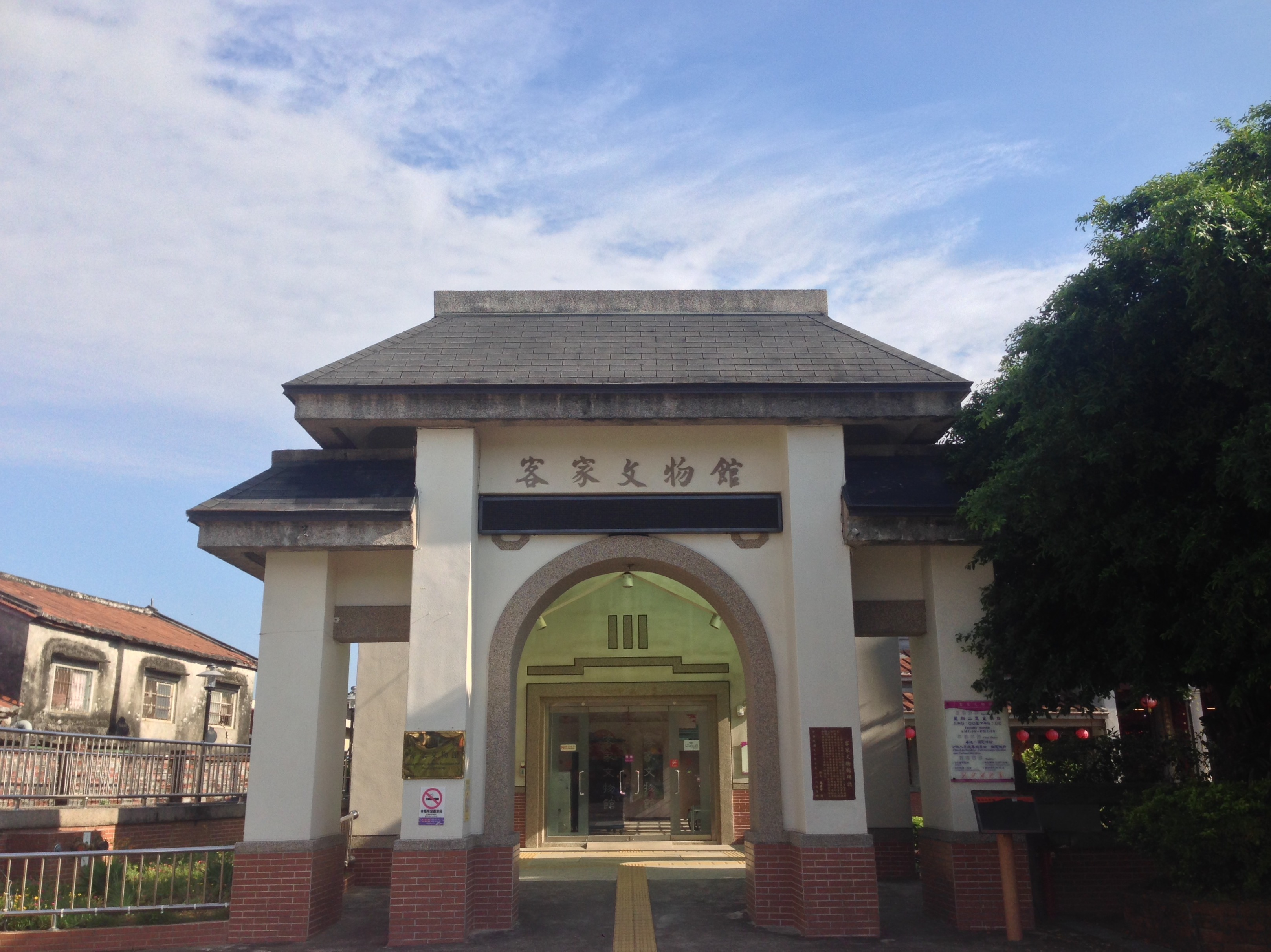 Pingtung Hakka Cultural Museum中文（台灣）: 屏東縣客家文物館